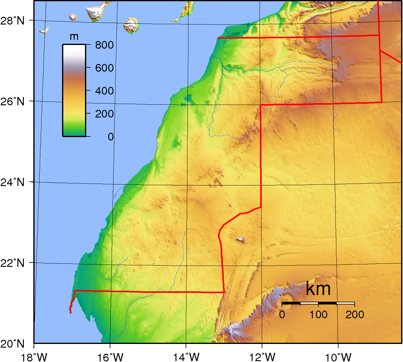 Topographic map of Western Sahara. Created with GMT from GLOBE data